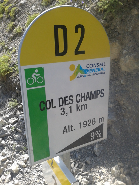 Mountain pass cycling milestone